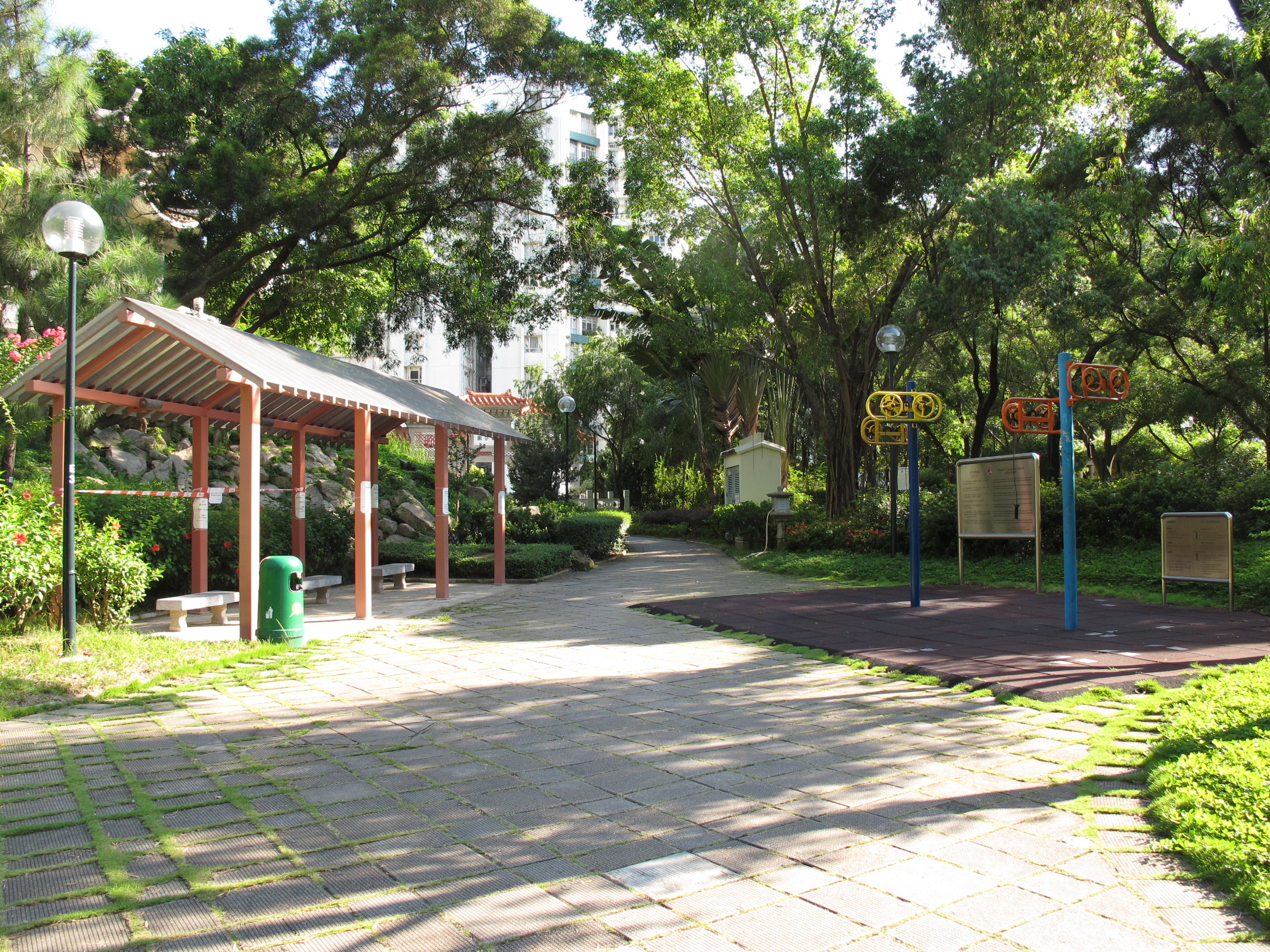 Hutchison Park Elderly Fitness Area